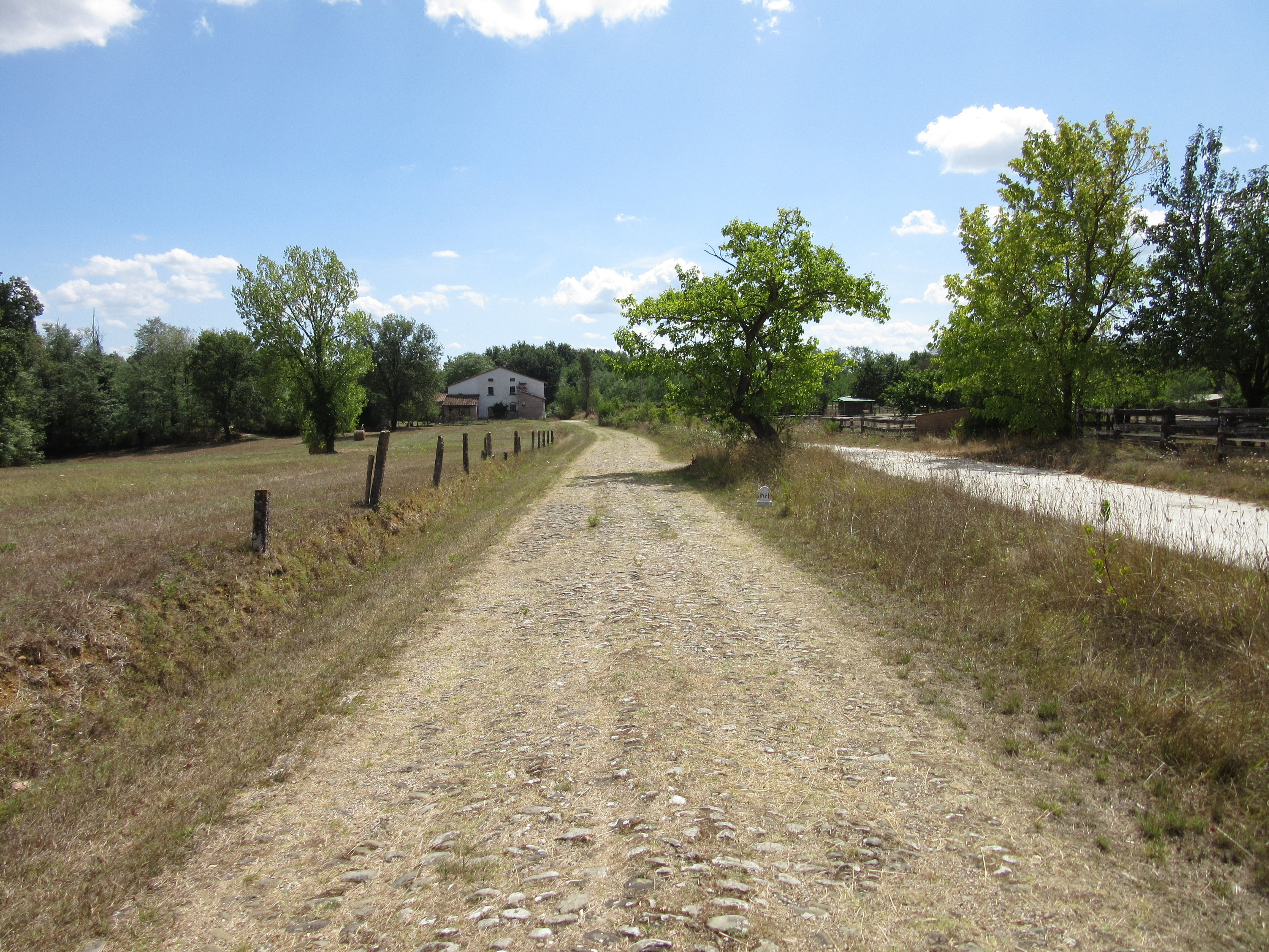 Cobbled section of Via Francigena in Galleno, in the municipality of Castelfranco di Sotto (PI). In the background, the "Osteria di Greppi", an ancient place of rest documented since the Middle Ages.